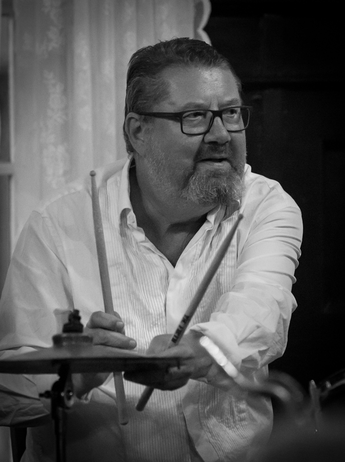 Per Frydenlund with Jazzin’ Babies at Stortorvets Gjæstgiveri. The concert was part of the Oslo Jazz Festival in Norway and took place on 19. August 2016. Lineup: Kristoffer Kompen (trombone) Erik Eilertsen (trumpet) Lars Frank (clarinet) Torgeir Koppang (piano) Jermund Kristiansen (double bass) Torbjørn Kristiansen (banjo) Per Frydenlund (drums)